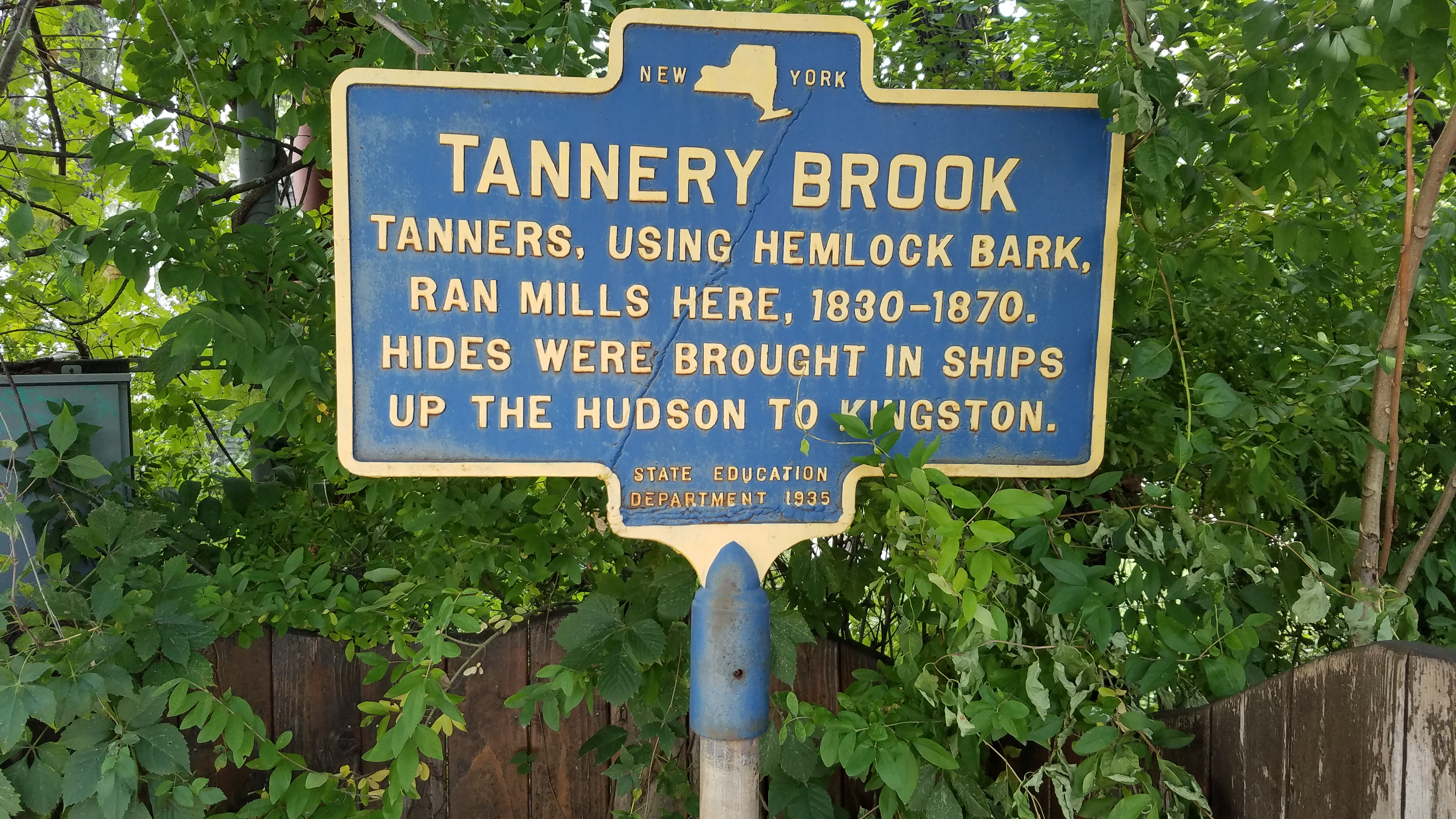 New York State Historical marker for the Tannery Brook in Woodstock, NY